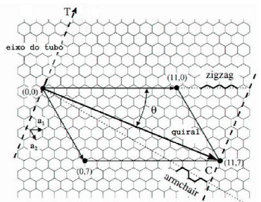 Conduntance of Carbon Nanotubes